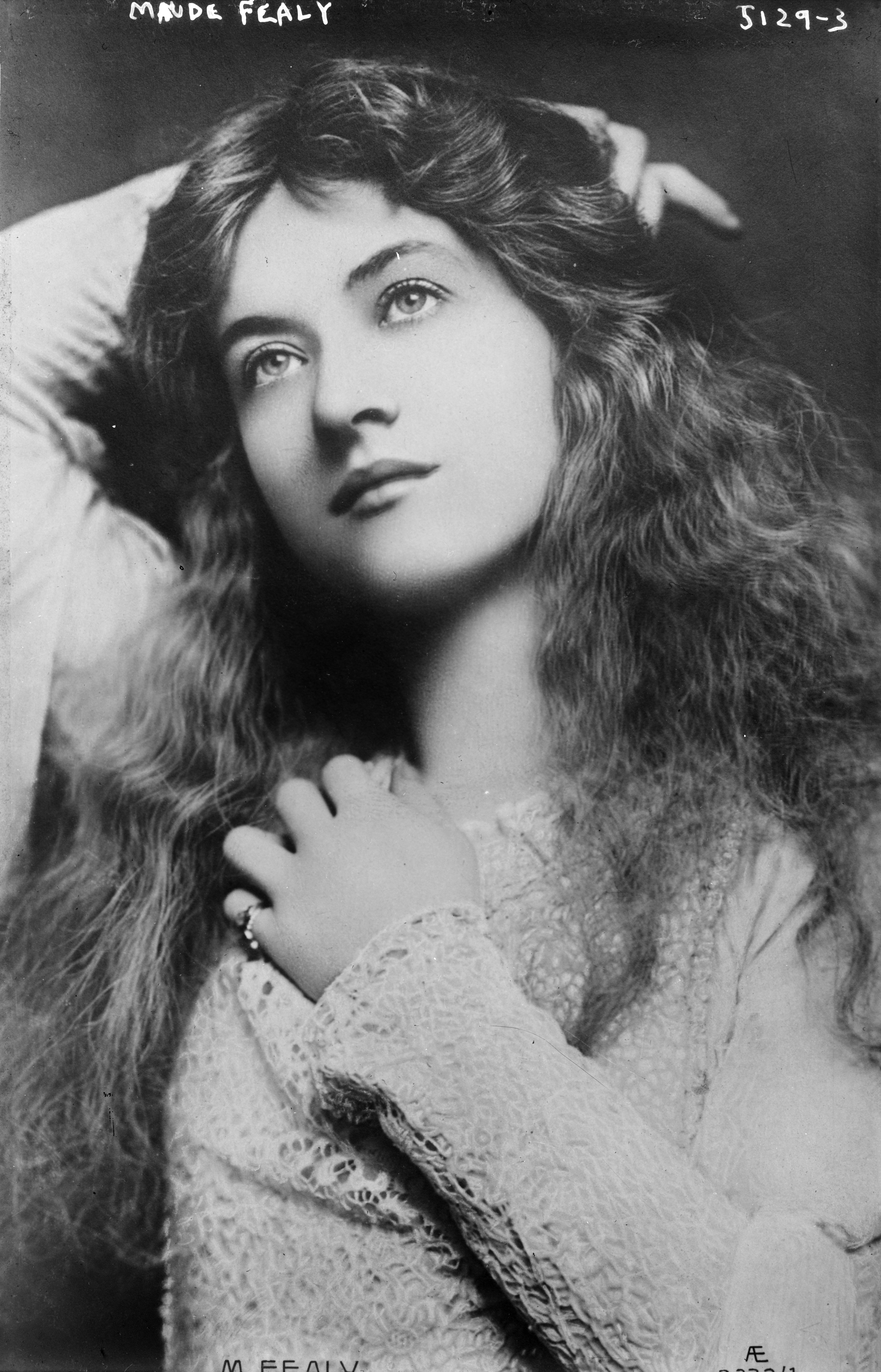 Broadway and Hollywood actress Maude Fealy, undated photograph from the Bain News Service. From her biography and a comparison of other photographs (e.g. this excellent gallery), this was likely taken by Lizzie Caswall Smith between 1900 and 1902.